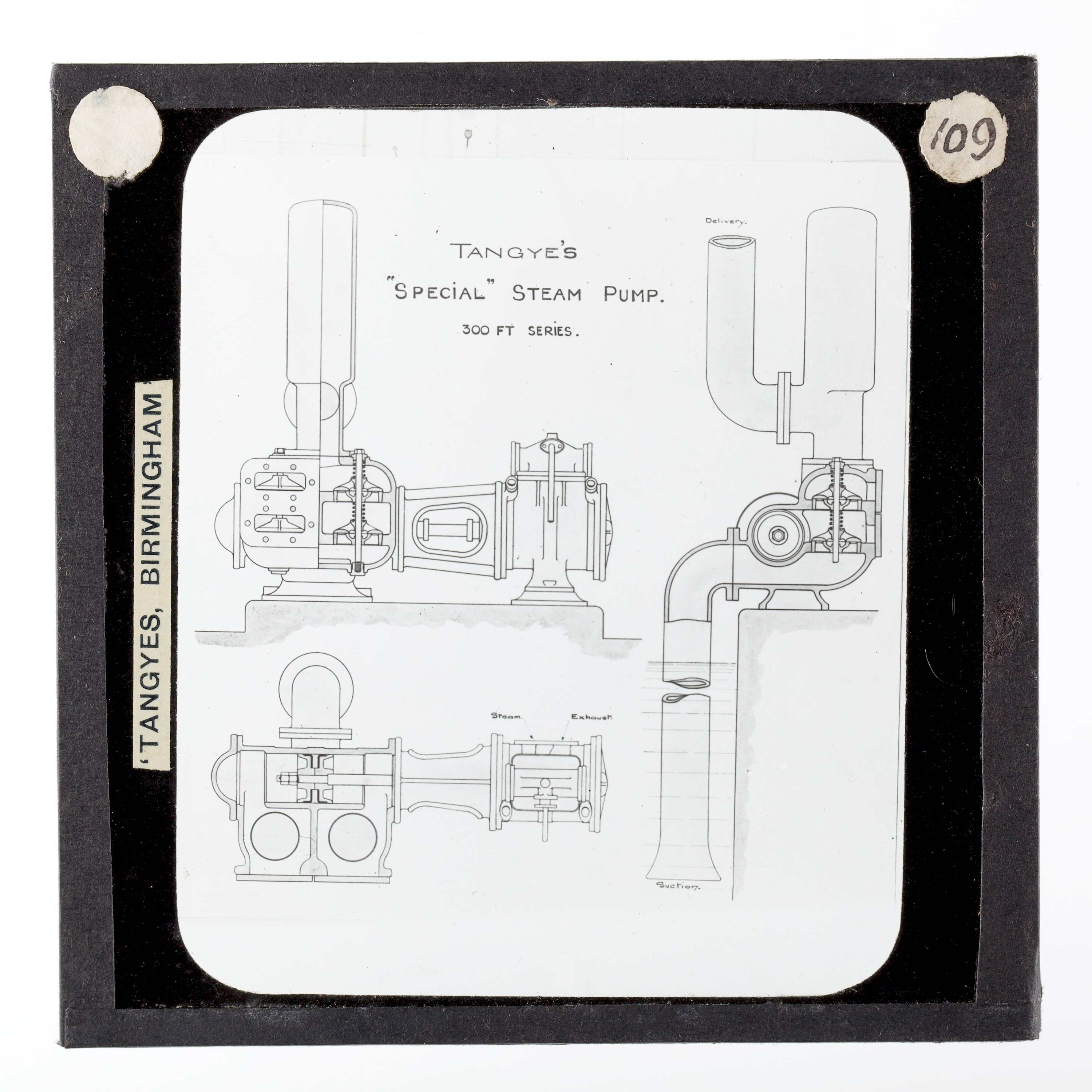 Cross-section, three-view diagram of a Tangye Special steam pump.